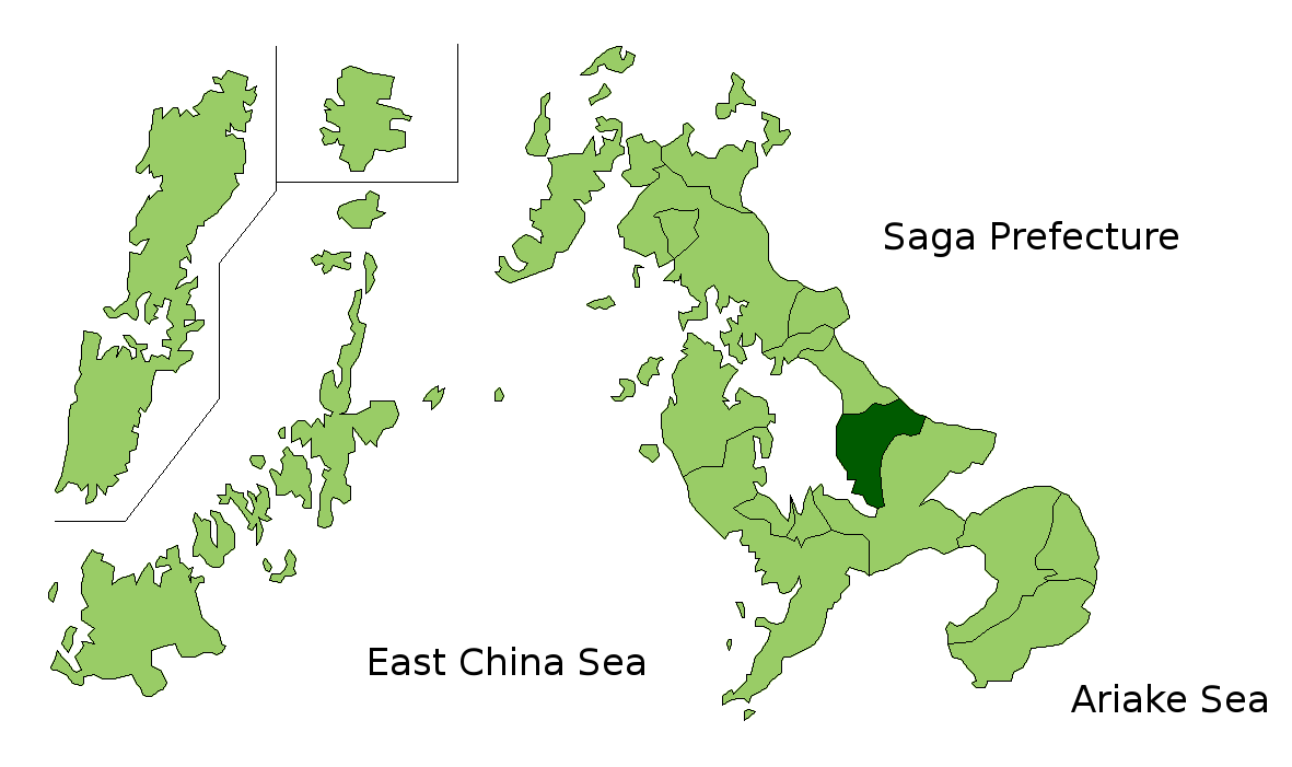 The location of Omura in Nagasaki Prefectuur, Japan